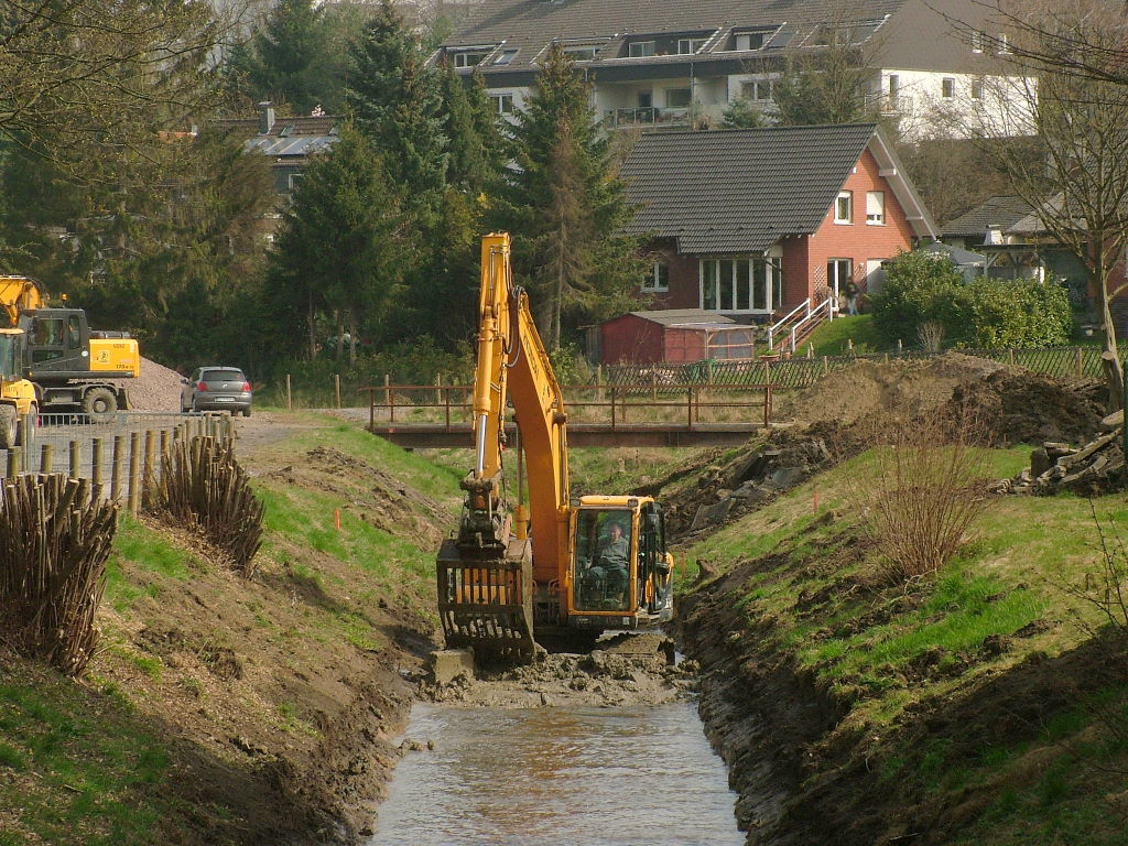 renaturation of the Emscher system: Demolition of concrete borders in the Rüpingsbach in Dortmund-Schönau